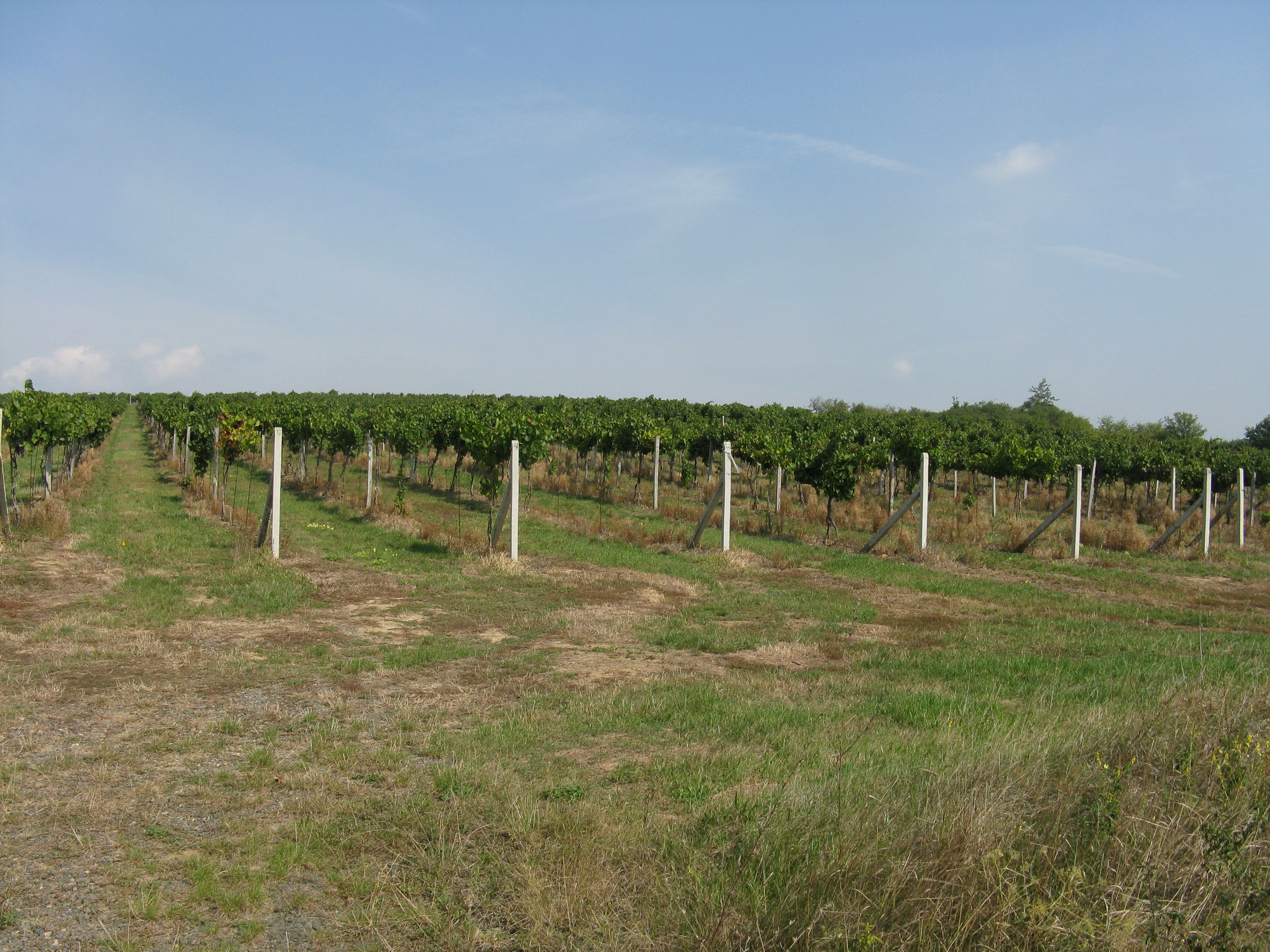 Village Brhlovce